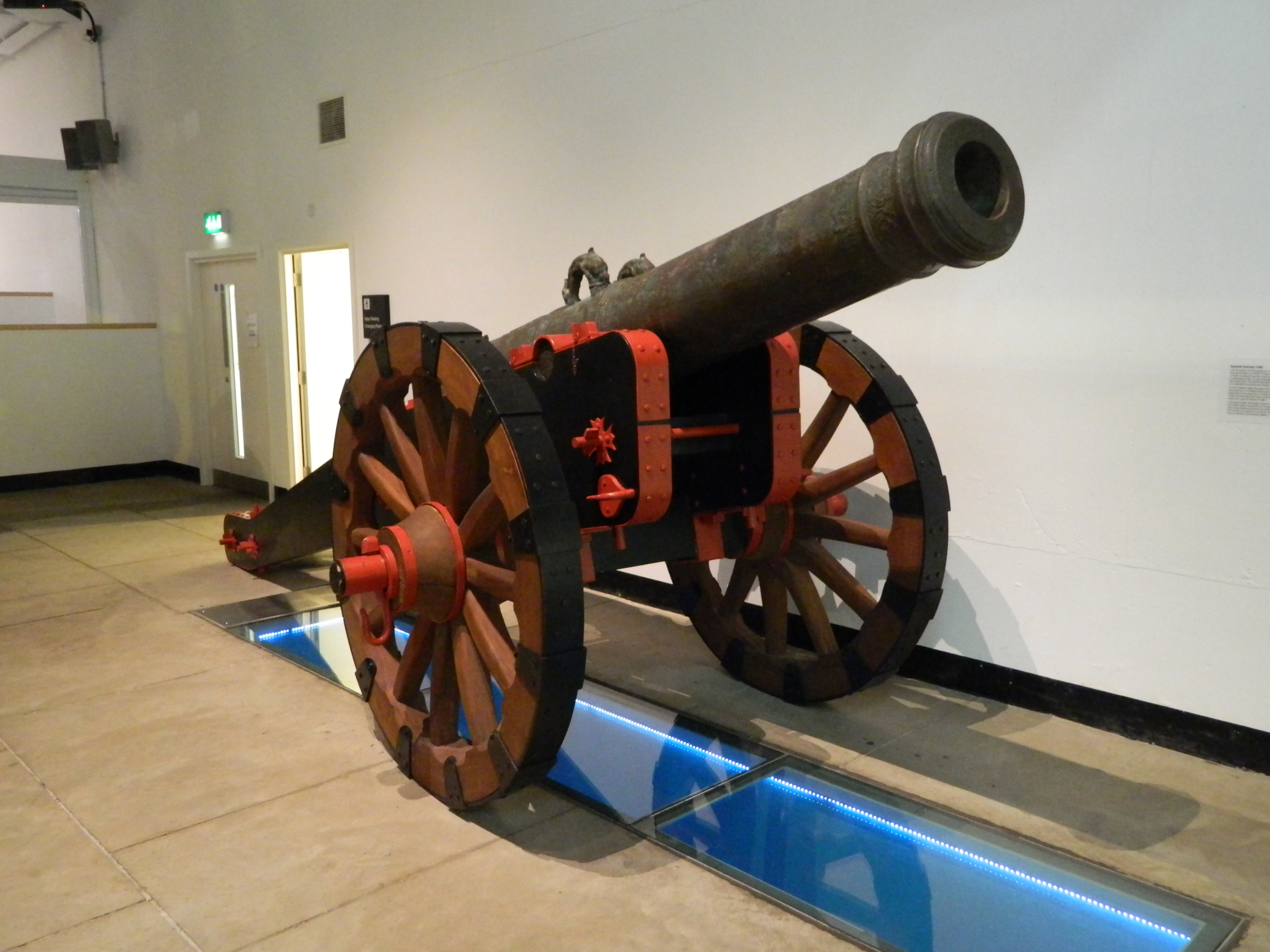 1588 bronze seige gun from the wreck of the Spanish Armada vessel La Trinidad Valencera, recovered from Glenagivney Bay, County Donegal in 1971. Displayed in the Ulster Museum.